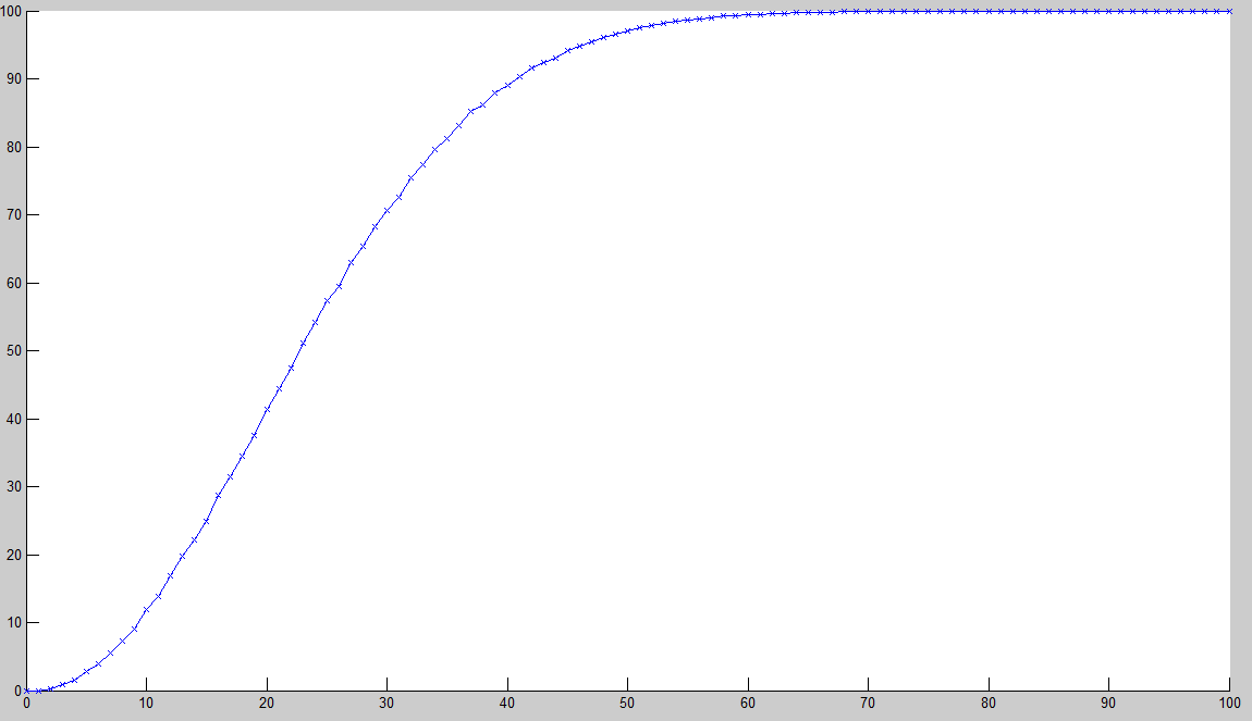 A picture that shows the Birthday problem simulation in Matlab